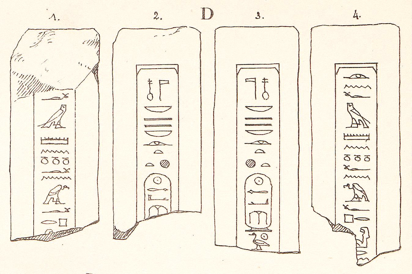 Drawing of an obelisk of pharaoh Aasehra (Aasehra Nehesy), from Tanis. 14th Dynasty, Second intermediate period.